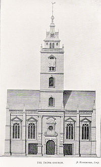 (Engraving from The Tron Kirk of Edinburgh by the Rev. D. Butler, Edinburgh, 1906.)